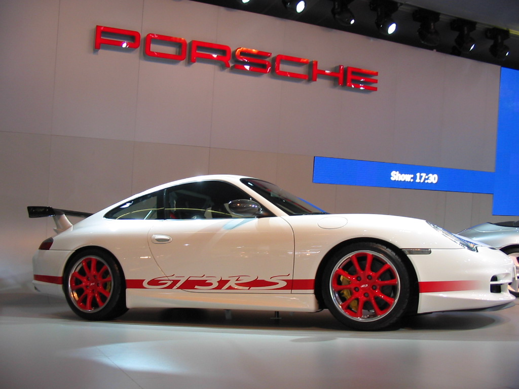 White Porsche 996 GT3 RS. Photo taken at IAA.